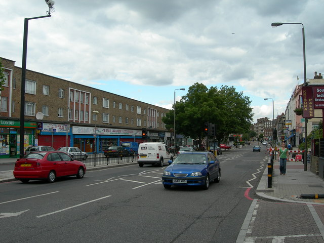 Balham High Road (1). Near Caistor Road / Old Devonshire Road 213835